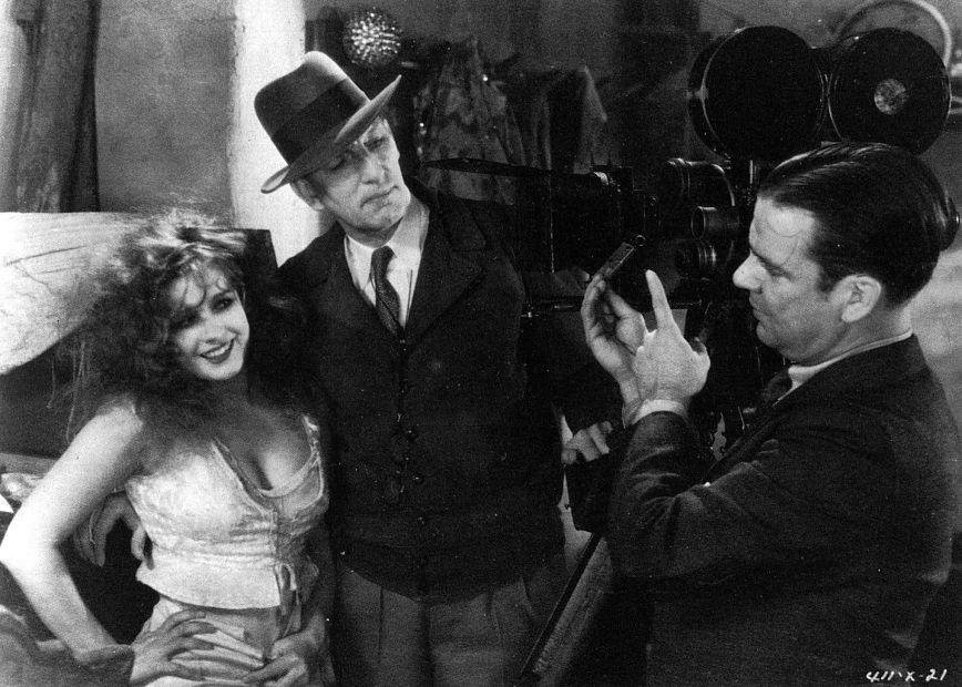 L. to R. : Lili Damita, director Charles Brabin, and cinematographer Merritt B. Gerstad on the set of The Bridge of San Luis Rey (1929) - publicity still